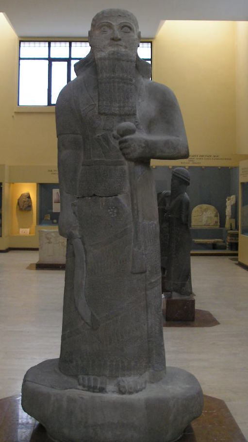 Statue of Shalmaneser III. 858-824 BCE, Neo-Assyrian Period. Assur (Qala't Sharqat) Basalt Inv. No. 4650. In the inscription, the king gives a brief account of his genealogical titles and characteristics as follows: "Shalmaneser, the great king, the mighty king, king of all the four regions, the powerful and the mighty rival of the princes of the whole earth (universe) the great ones, the kings, son of Assur-Nasirapli, king of universe, king of Assyria, grandson of Tukulti-Ninura, king of universe, king of Assyria." The inscription continuous with his campaigns and deeds of the lands of Urarut, Syria, Namri, Que and Tabal and comes to an end as follows: "At that time I rebuilt the walls of my city Ashur from their foundations to their summits. I made an image of my royal self and set it up in the metal-workers gate."